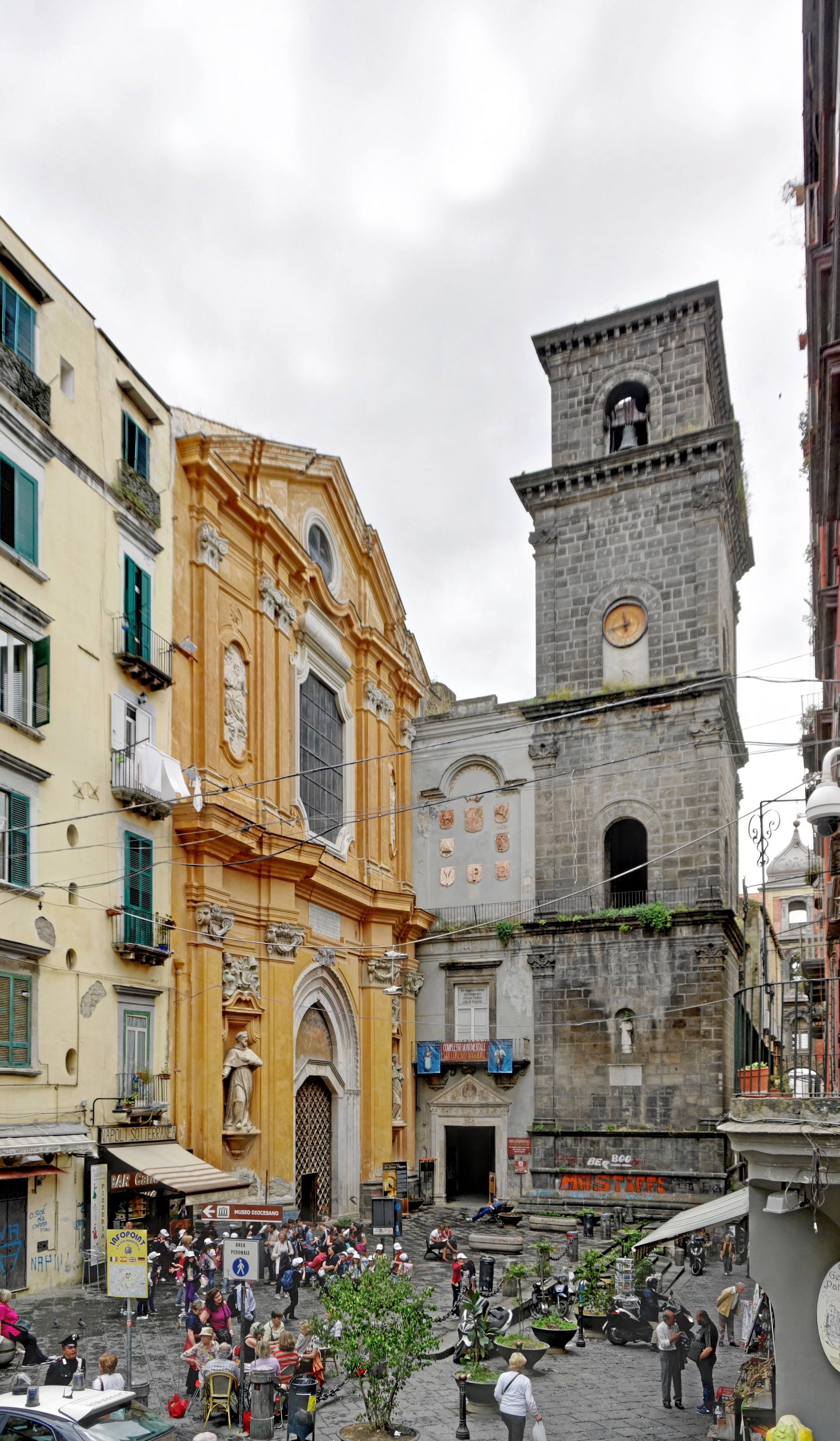 Naples, San Lorenzo Maggiore, Piazza San Gaetano